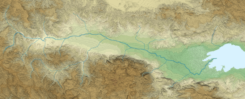 Relief map of the Valley of Spercheios.